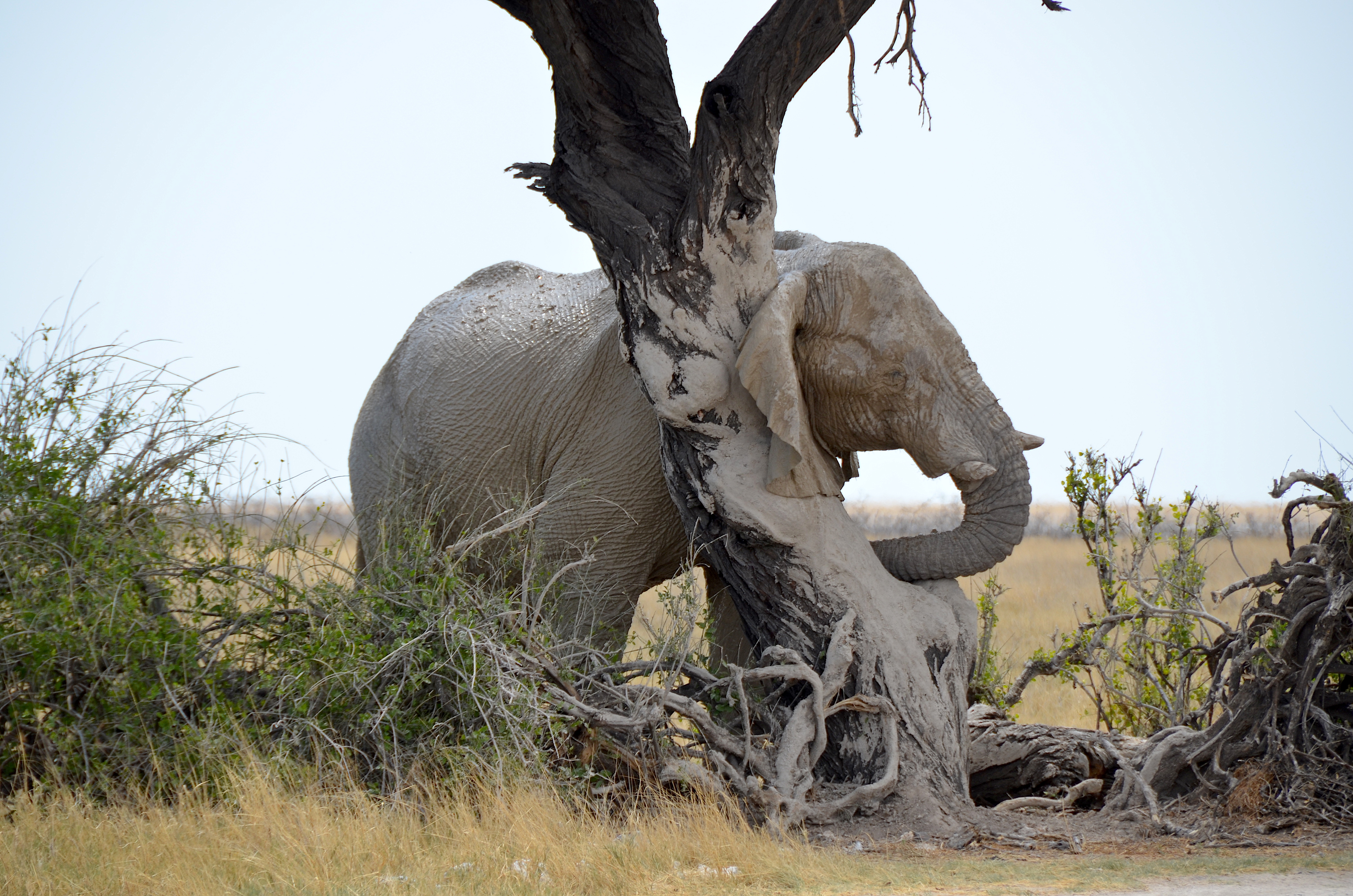 Elephant scratching on a tree at waterhole Charitsaub